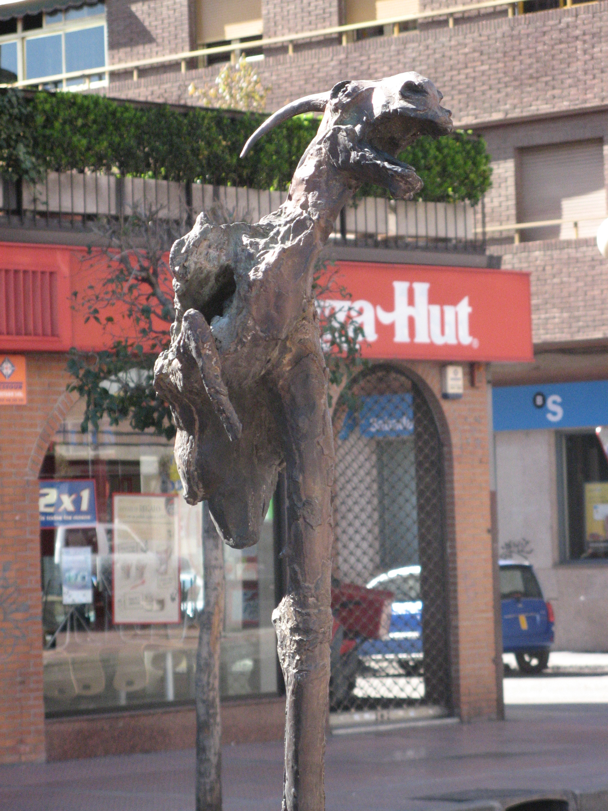 Aurelio Teno sculpture at the Museum of Outdoor Sculpture of Alcala de Henares (Community of Madrid - Spain).